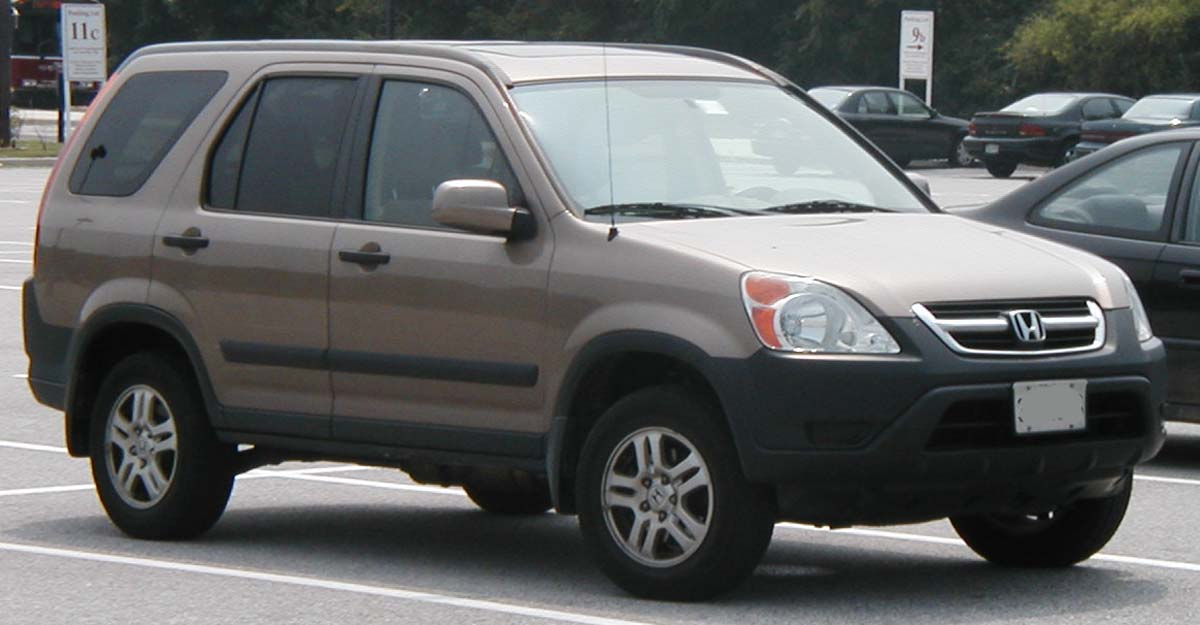 2002-2004 Honda CR-V photographed in USA.